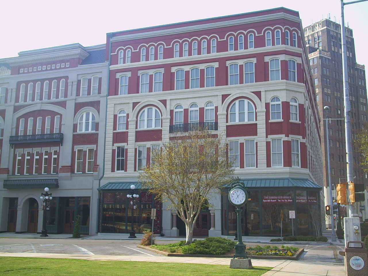 Mississippi State University Riley Center for Education and Performing Arts in downtown Meridian, Mississippi; formerly the Grand Opera House; constructed in 1889, renovated in 2006.